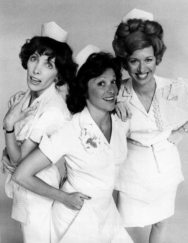 Cast photo of the waitresses at Mel's Diner from the television program Alice. From left: Beth Howland as Vera, Linda Lavin as Alice, and Polly Holliday as Flo.